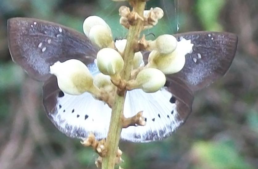 Tagiades flesus from Pipeline Coastal Park, Amanzimtoti. This picture is the same individual as seen here